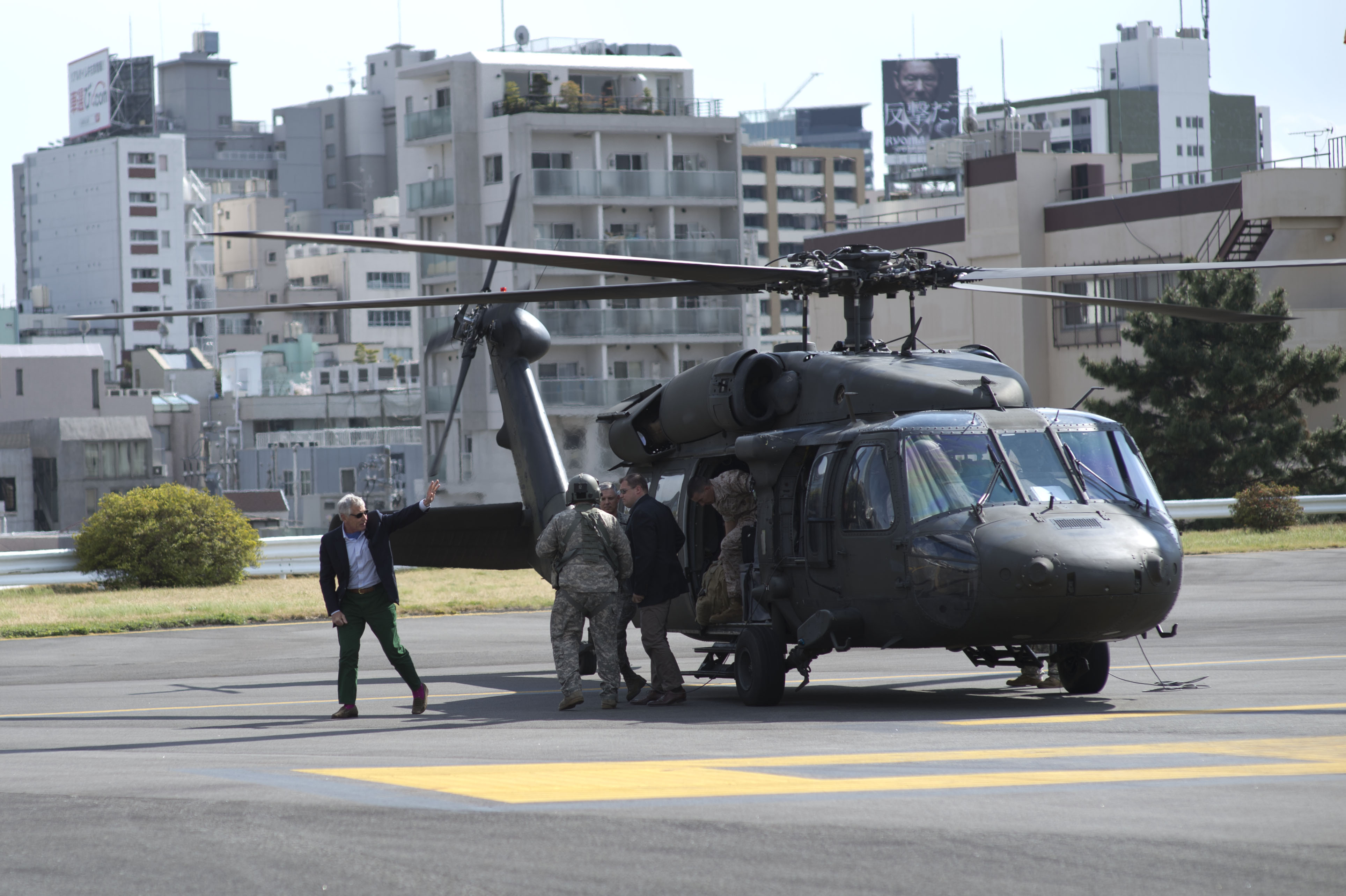 U.S. Defense Secretary Chuck Hagel waves to the pilots of a UH-60 Blackhawk helicopter after landing at Hardy Barracks in Tokyo, April 5, 2014. Hagel met with troops on Yokota Air Force Base earlier in the day and will continue his three-day stay in Tokyo, meeting with the Japanese prime minister and defense and foreign ministers.